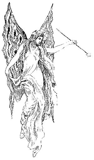 Illustration from book The Goblins' Christmas by Elizabeth Anderson.